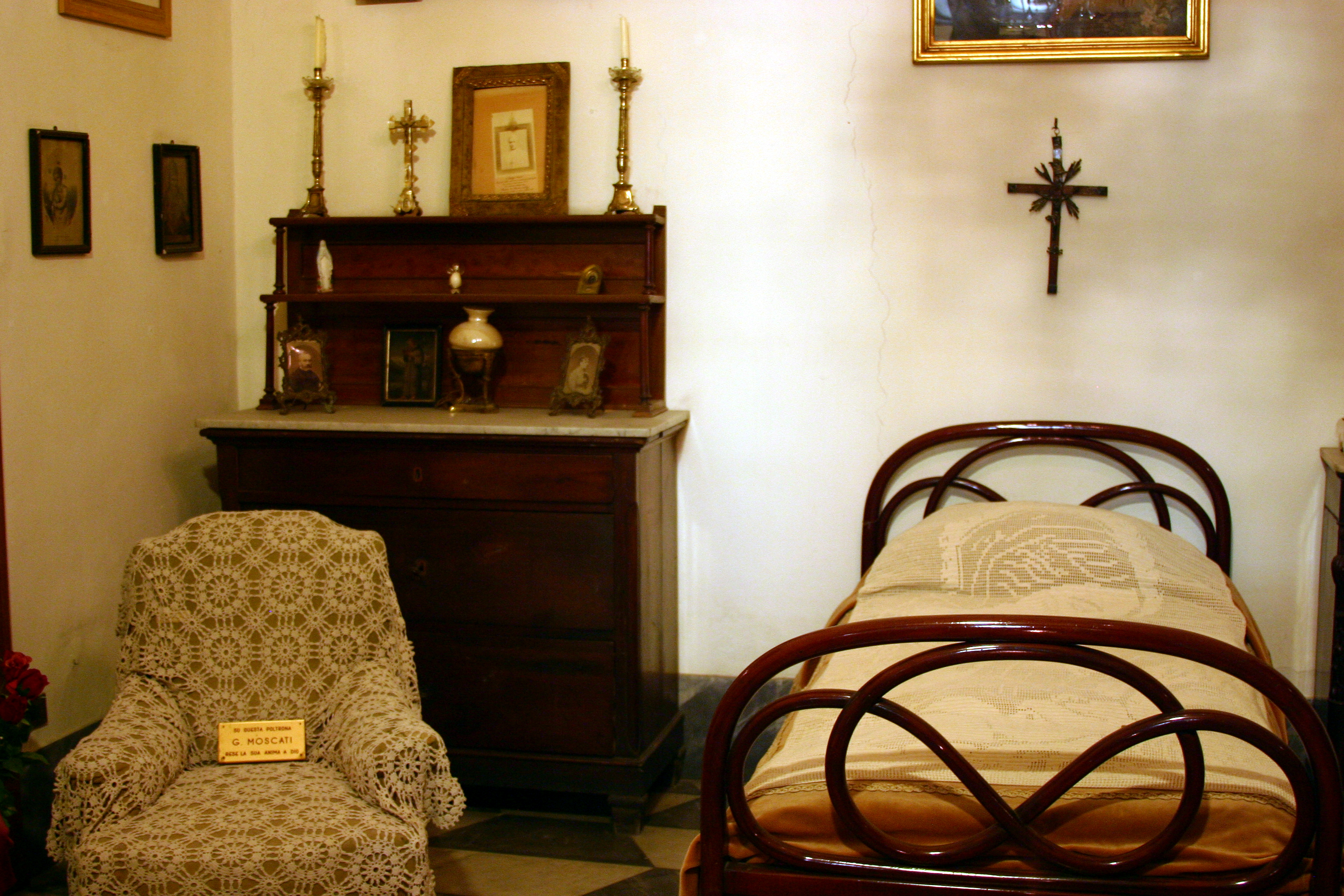 Naples, Italy.